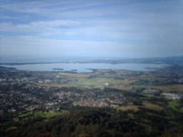 Lake Illawarra as seen from Mount Kembla